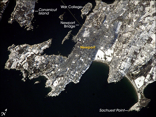 Astronaut photo of Newport, Rhode Island, USA, with major features labelled. Taken from the International Space Station.